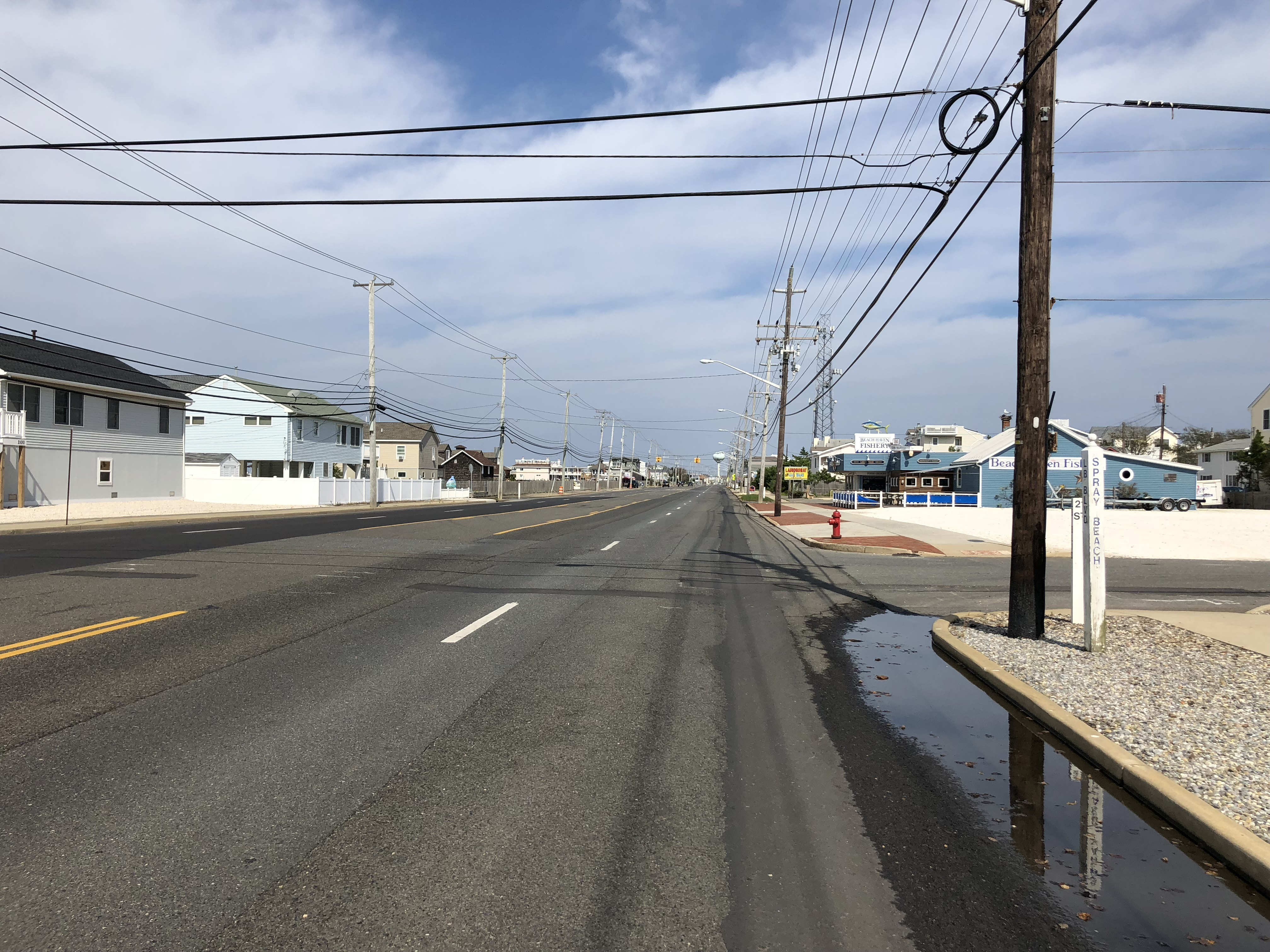 View north along Ocean County Route 607 (Long Beach Boulevard) at 21st Street in Long Beach Township, Ocean County, New Jersey